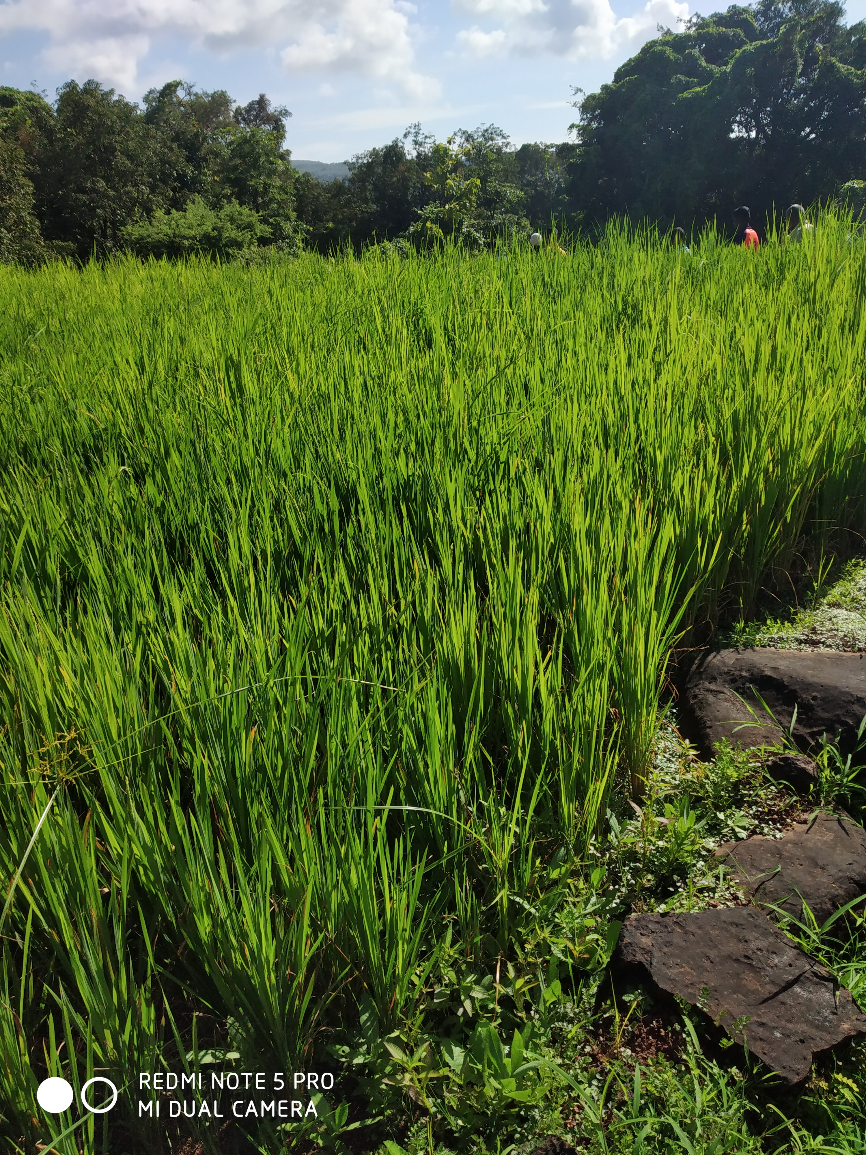 Rice is cultivated every year during the rainy season